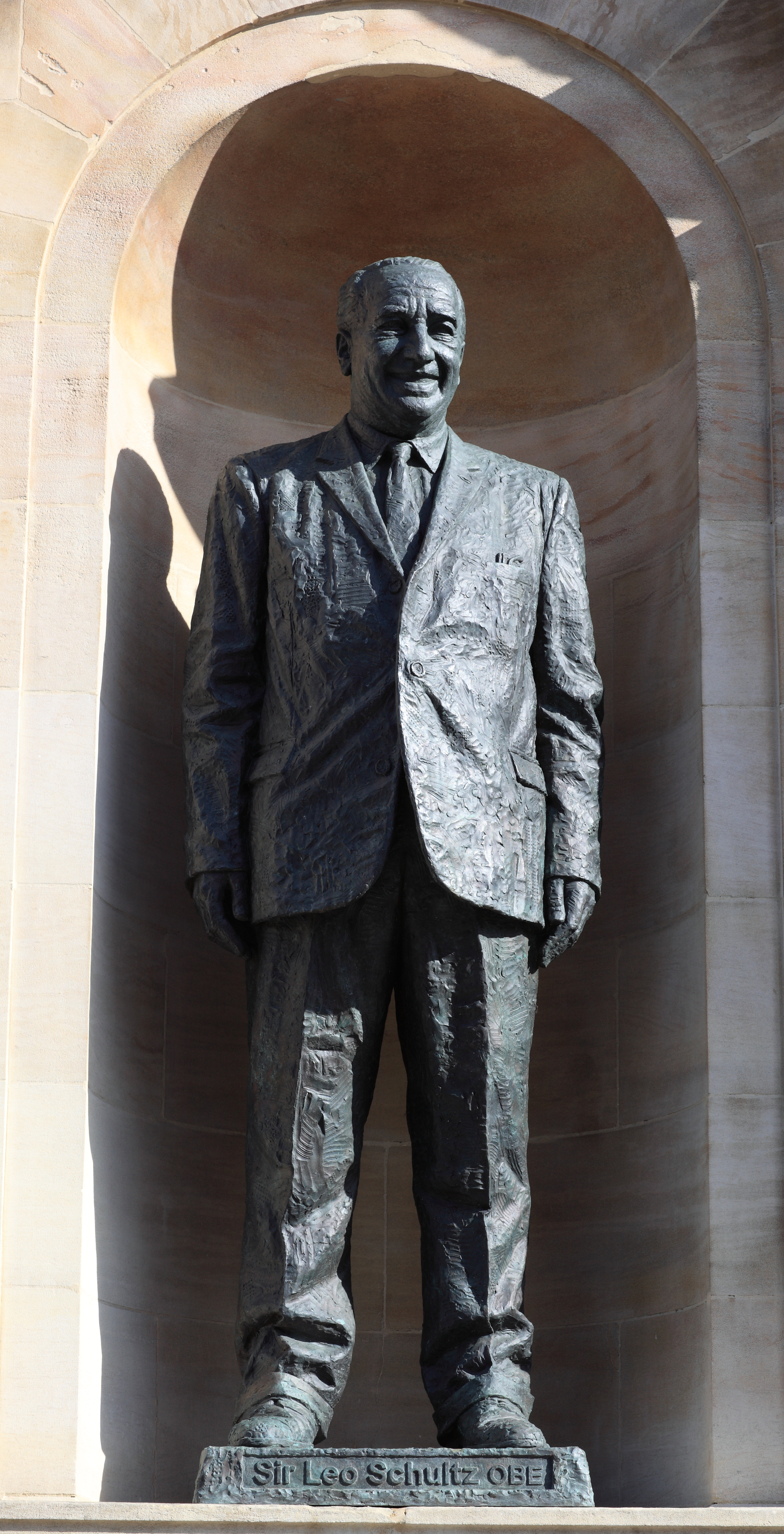 Statue of Sir Leo Schultz